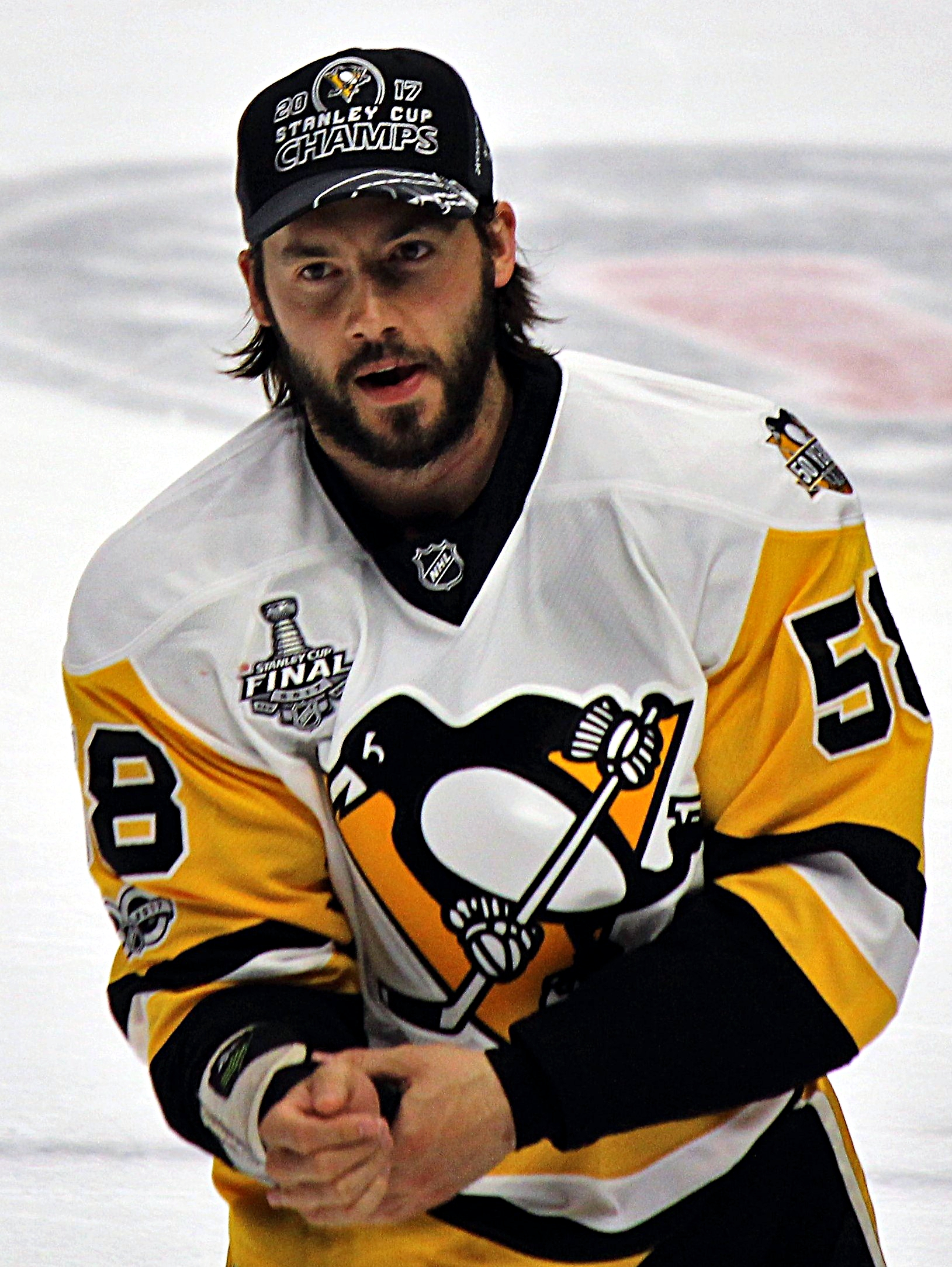 Pittsburgh Penguins defenseman Kris Letang celebrating the team's fifth Stanley Cup win, June 11, 2017, at Bridgestone Arena in Nashville, TN.